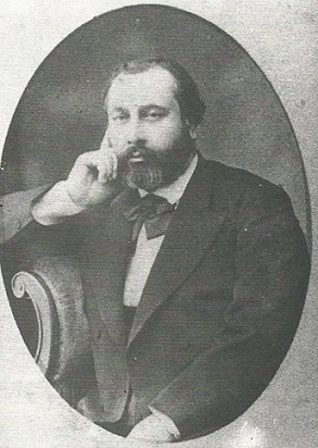 Zühtü Paşa, Ahmet 1834-1902